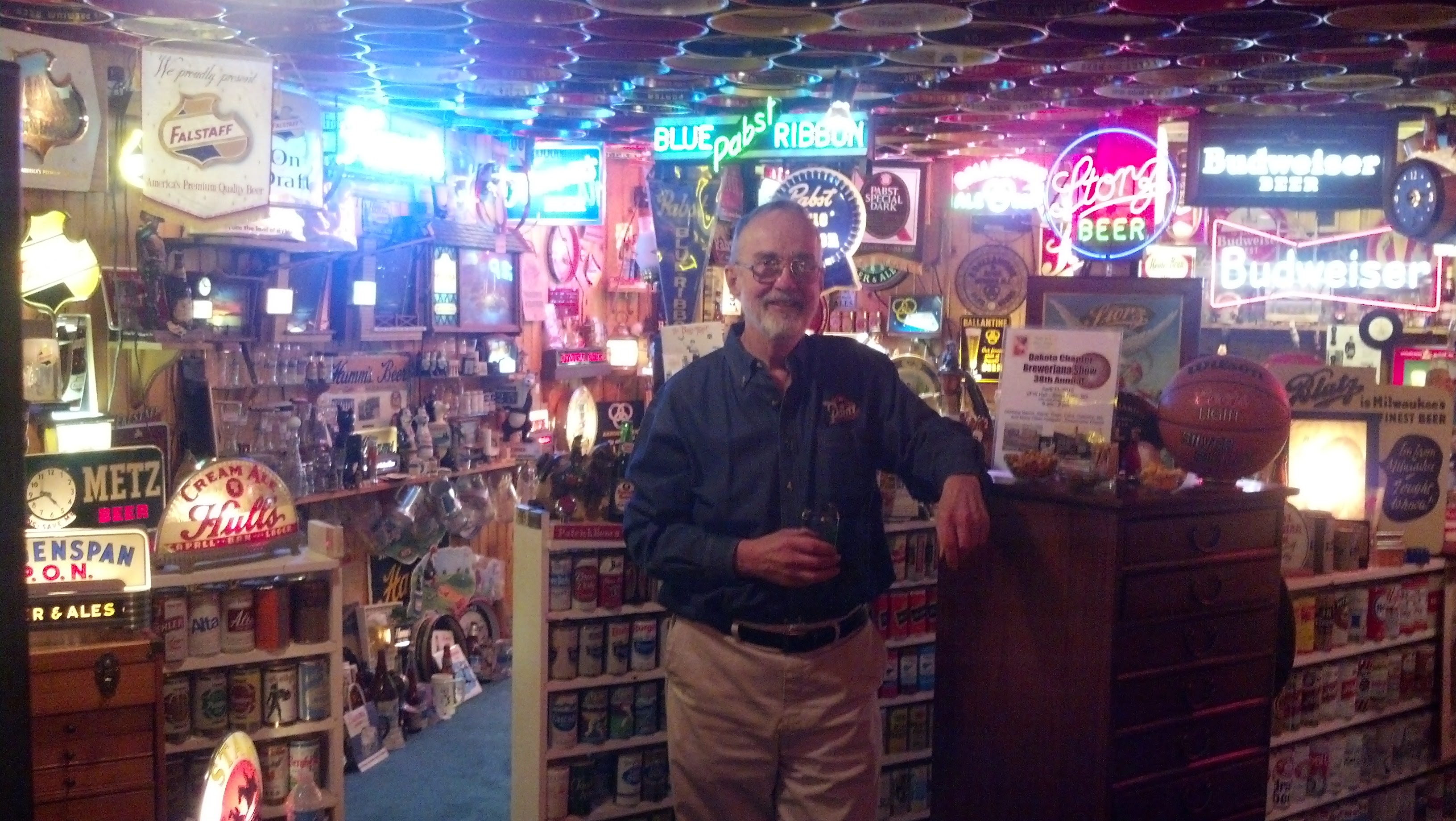 A collection of many types of breweriana